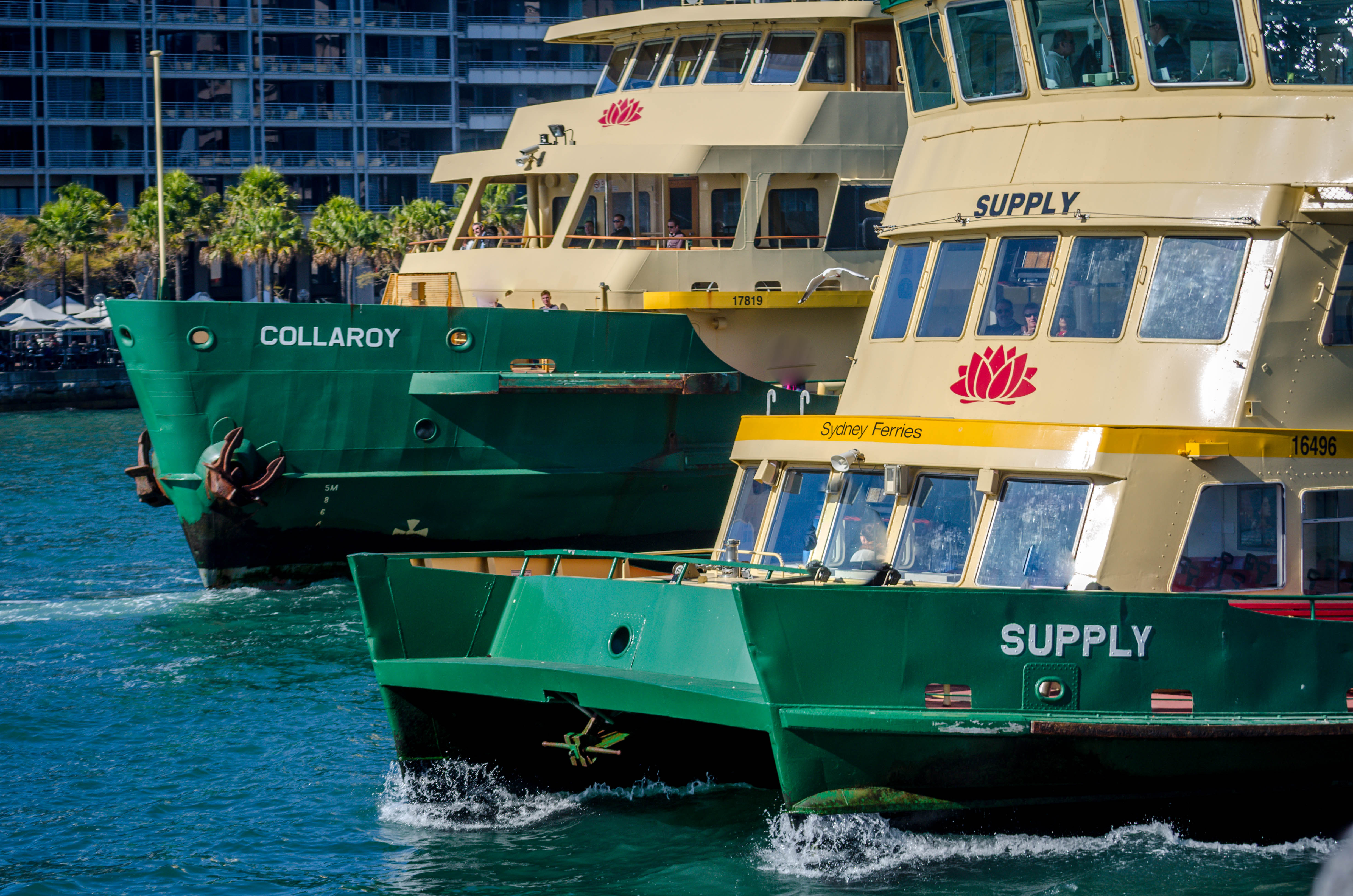 Sydney Ferries Supply and Collaroy at Circular Quay